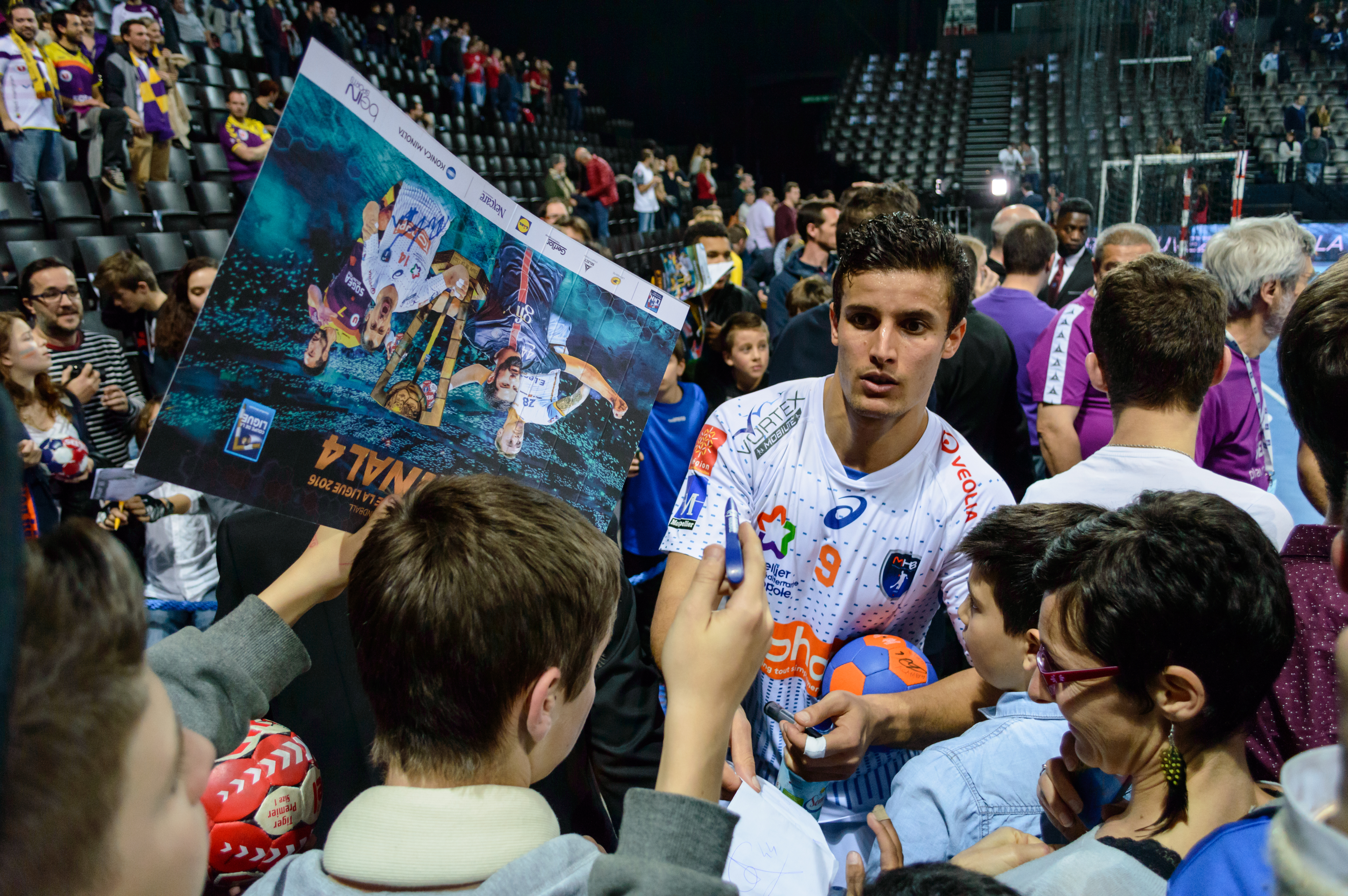 Semi-finale of the Handball League Cup, between Fenix HBC Nantes and Montpellier Handball.